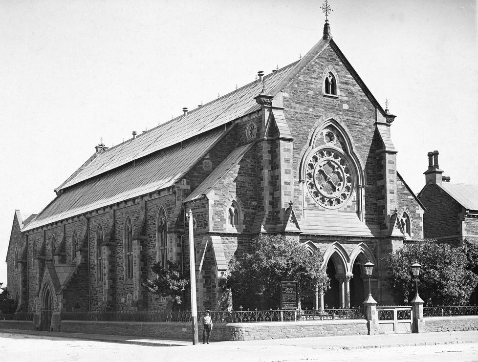 Flinders Street Baptist Church